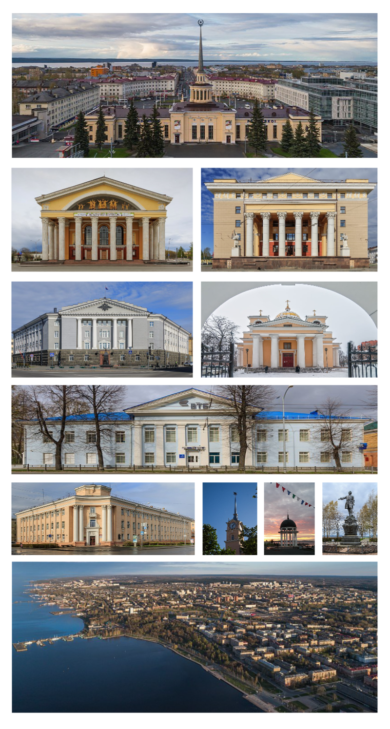 A montage of Petrozavodsk city